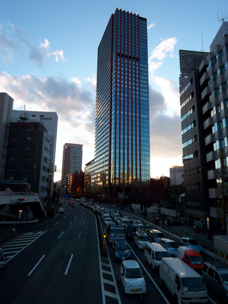 Mita Twin Building, West Tower